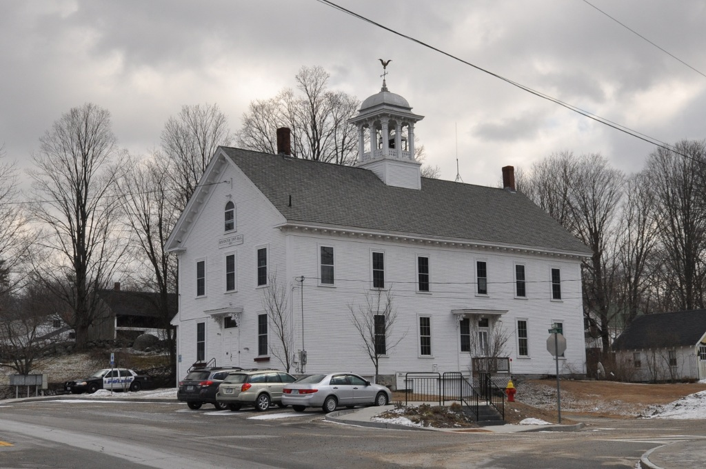 Town Hall of Bennington, New Hampshire. Part of Bennington Village Historic District.